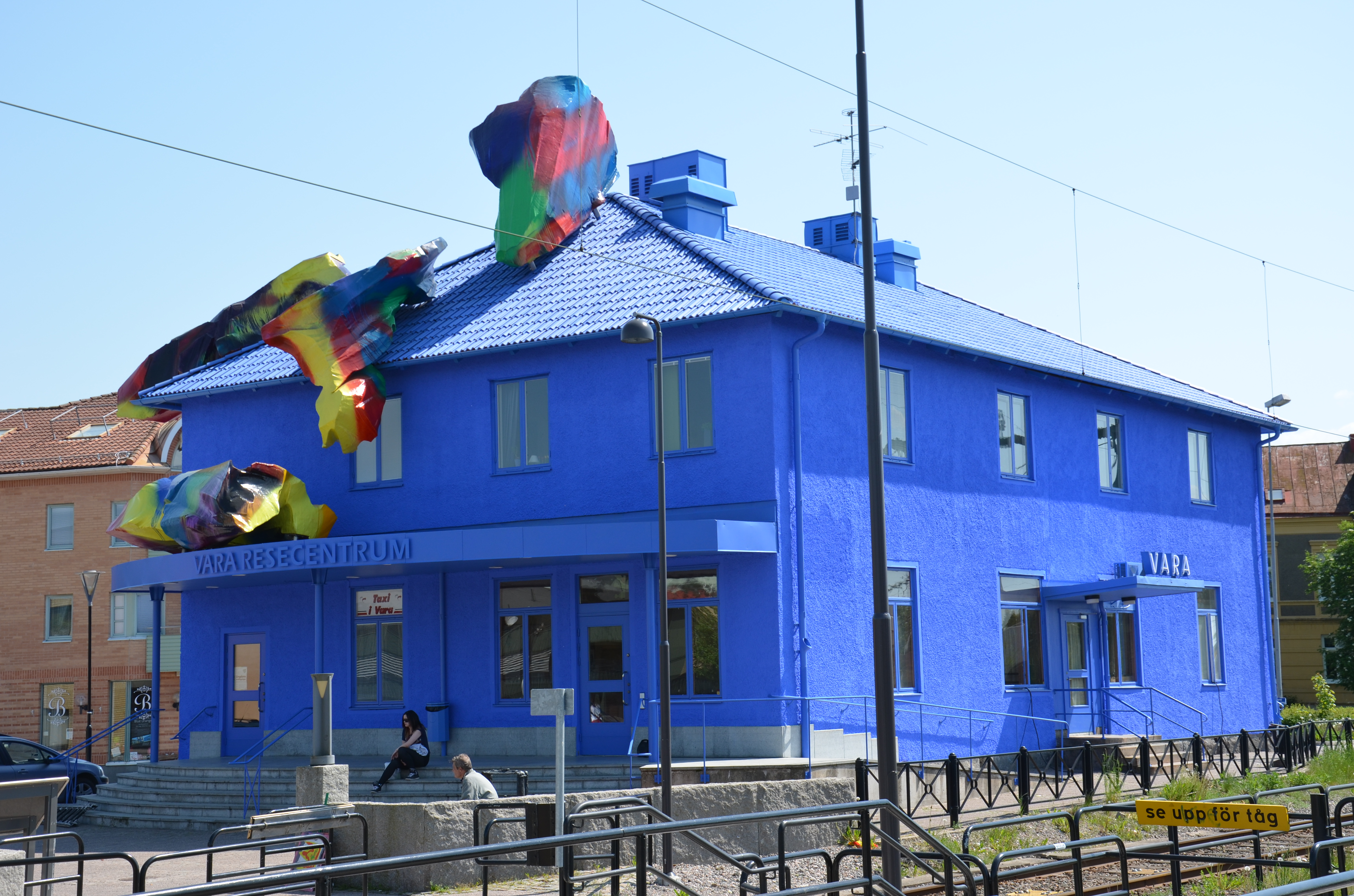 Sculpture/Installation Blue Orange, Vara Railway Station, Sweden, by German painter/artist Katharina Grosse, inaugarated May 26, 2012